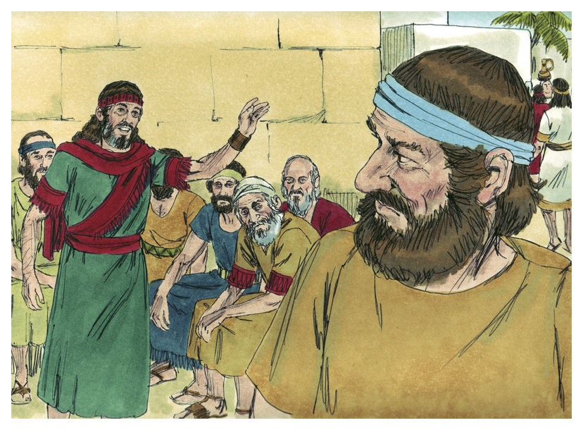 Biblical illustration of Book of Ruth Chapter 4